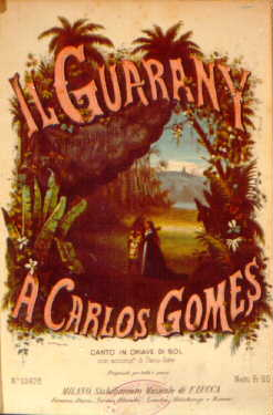 Score of Il Guarany, opera by Antônio Carlos Gomes - Front Cover